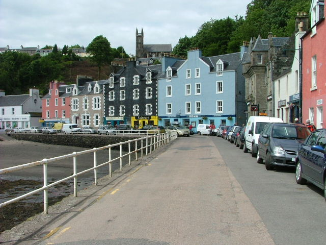 Tobermory Main Street